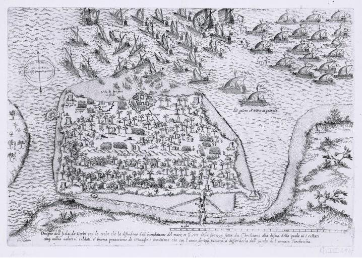 Italian map of Djerba (Battle of Djerba 1560)